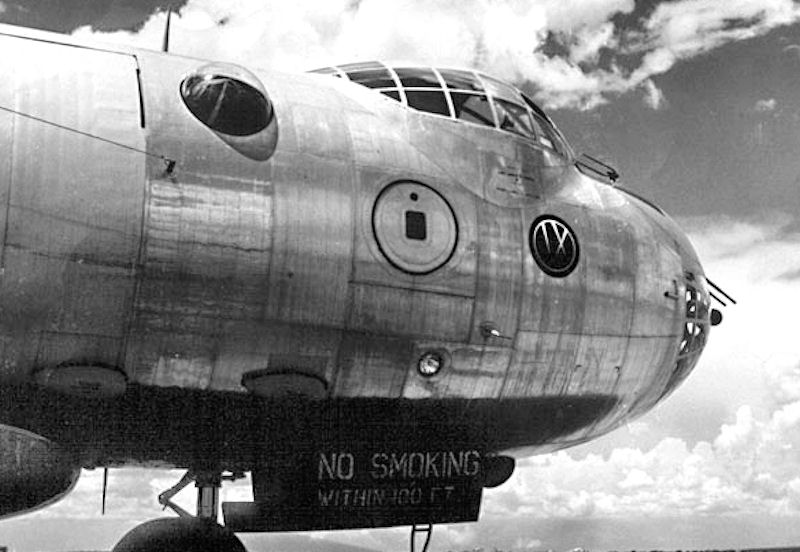 9th Bombardment Squadron - B-36 Peacemaker